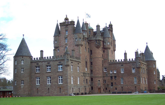 Glamis Castle "The family home of the Earls of Strathmore and Kinghorne".